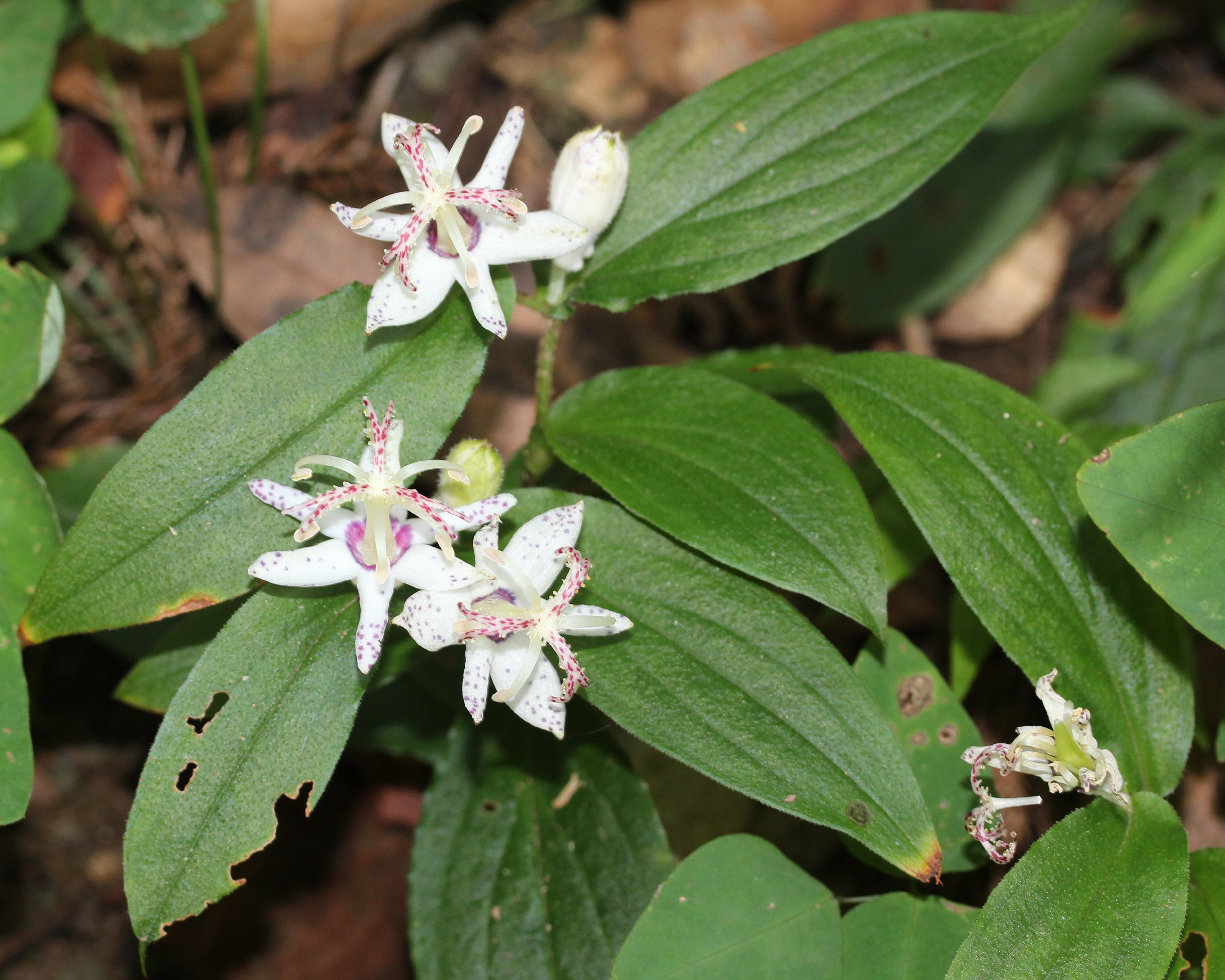 Tricyrtis affinis in Mount Yōrō, Yōrō, Gifu prefecture, Japan.